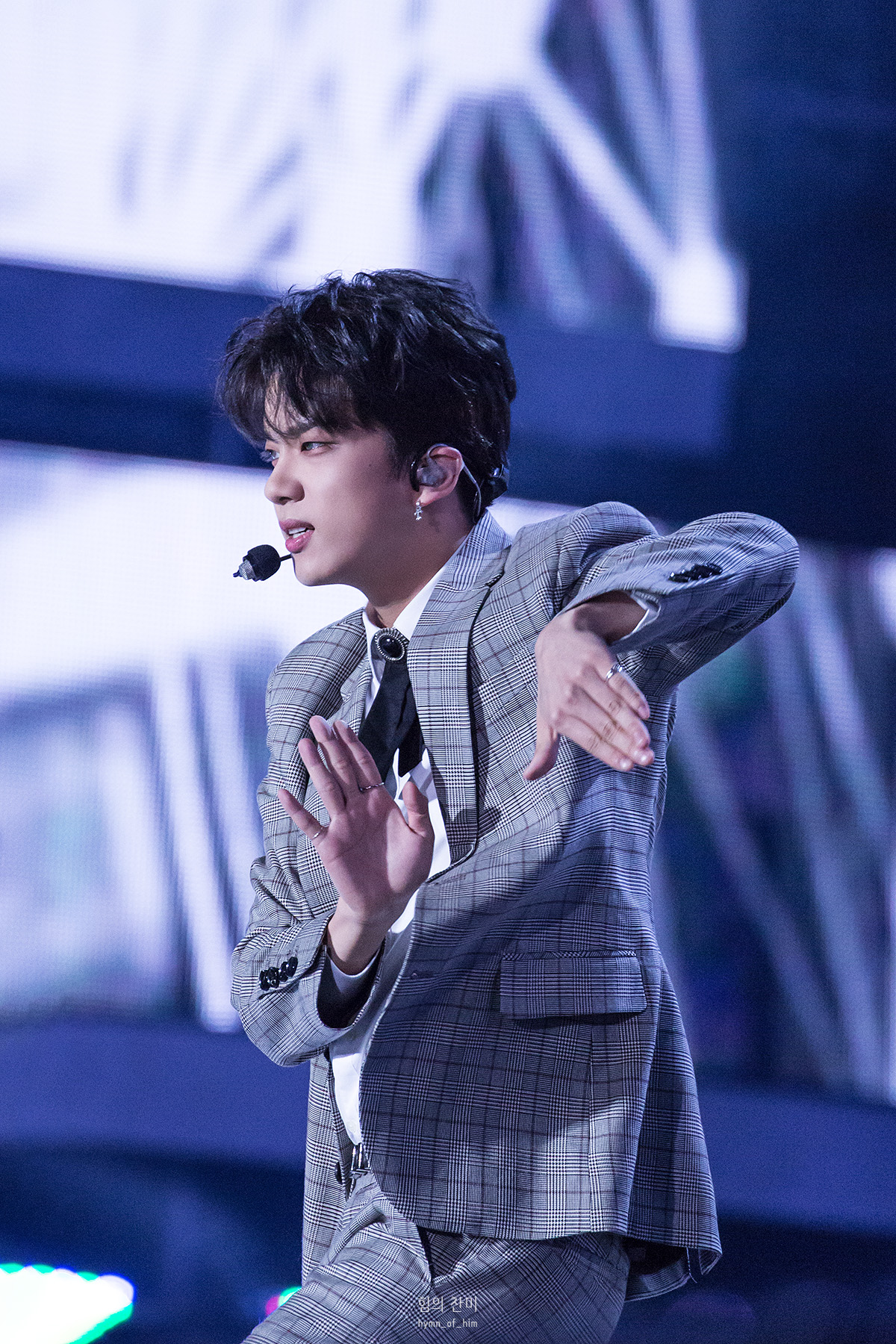 B.A.P performing on SBS's Inkigayo in Daejeon on September 24, 2017.